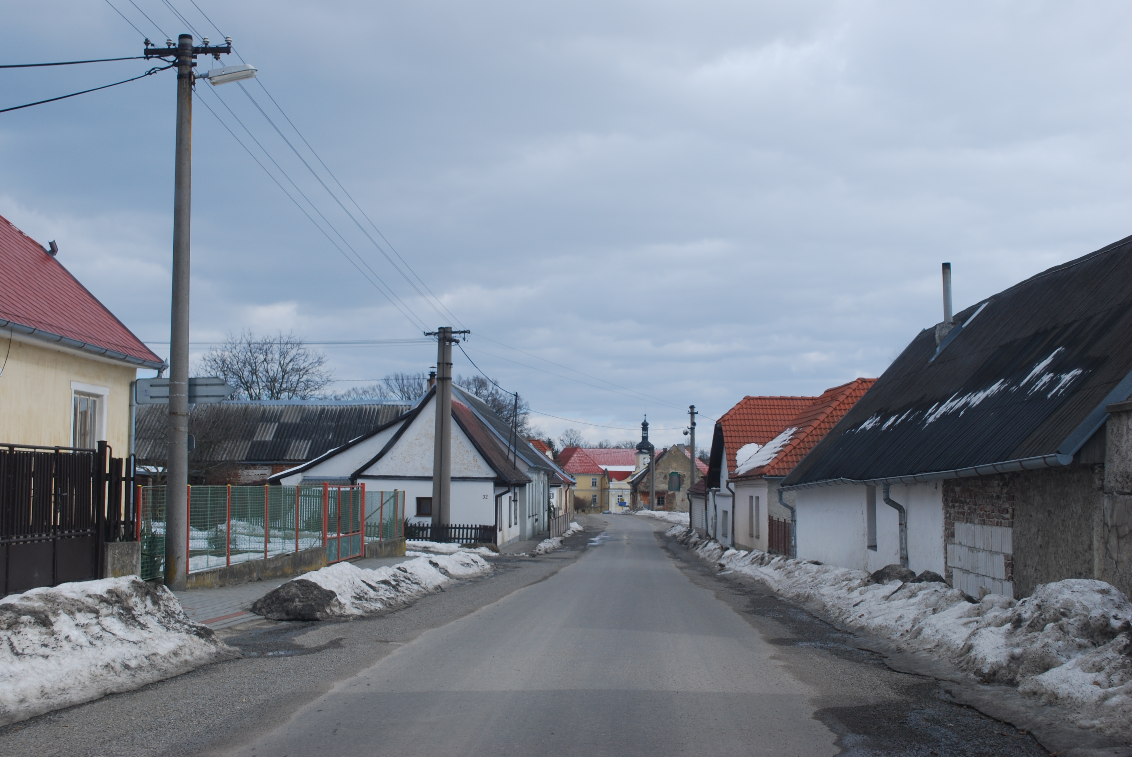 Stádlec village in Tábor District, Czech Republic This photograph was taken within the scope of the 'Czech Municipalities Photographs' grant. - OpenStreetMap (Info)